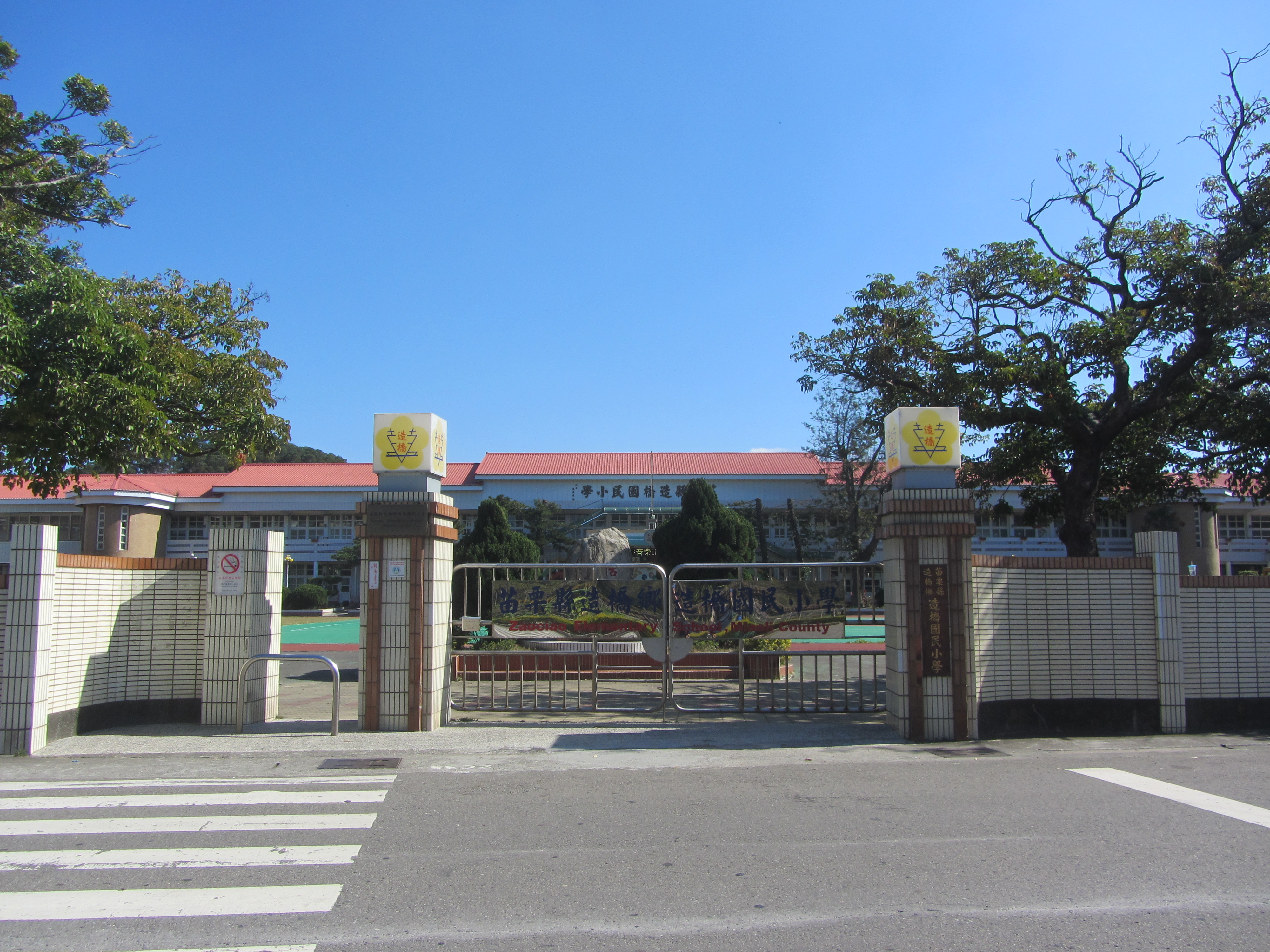 Zaociao Elementary School, Miaoli County